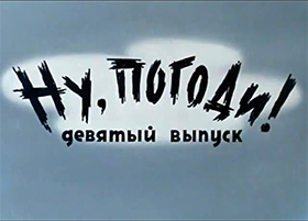 Title card for the Sojuzmultfilm short "Nu, pogodi!" from 1976.